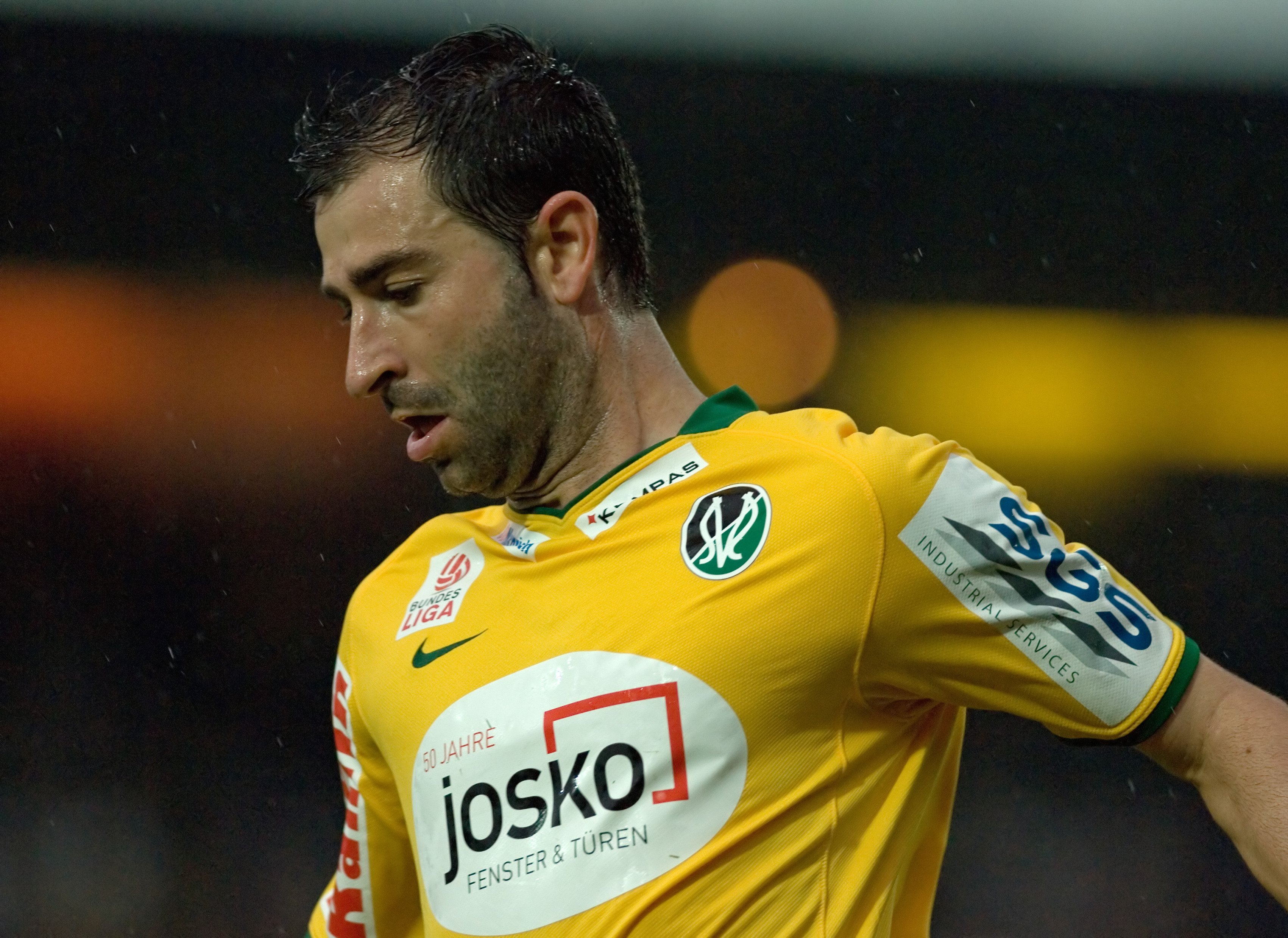 at the game SV Ried vs. FK Austria Wien Location: Franz-Horr-Stadion, Vienna, Austria Camera: Nikon D2X Lens: AF-S VR Nikkor 300 mm 1:2,8 IF-ED f/2,8 Film / Speed: ISO 400 Comment